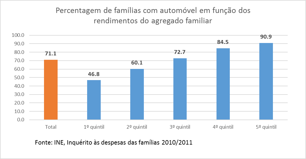 Possession of automobile in Portugal, by income